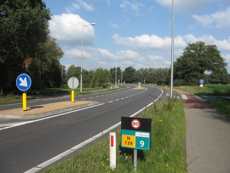 Dutch Provincial Road 739 between Hengelo en Beckum